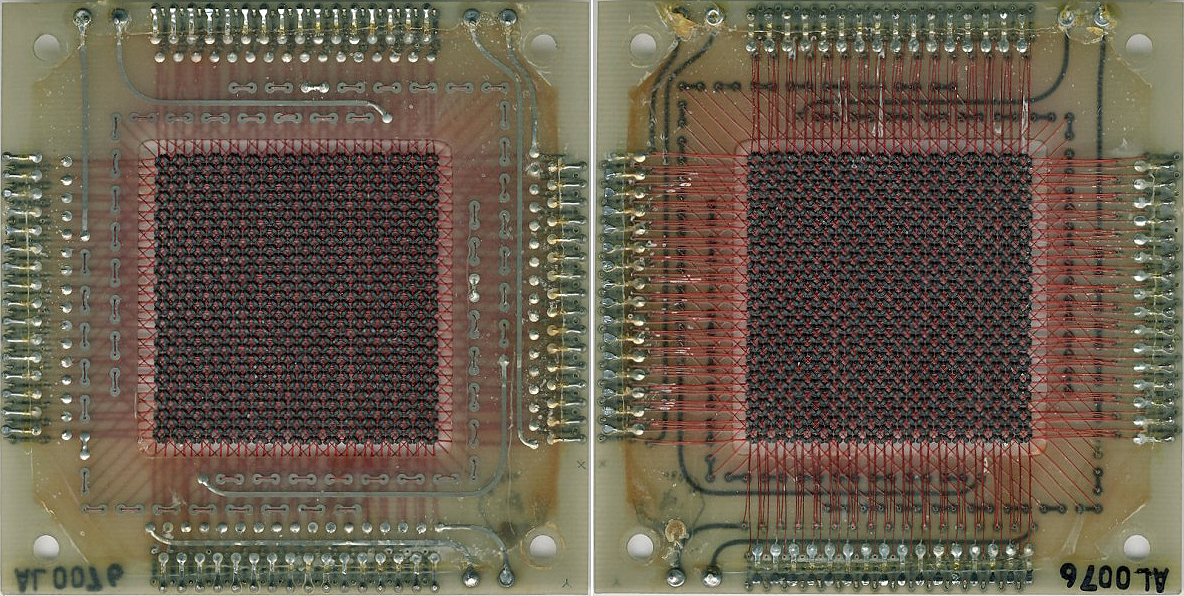 A 1024-bit core memory module from the Apollo Guidance Computer (AGC). There are 1024 circular ceramic magnets, each one with three wires running through it. A memory bit is set or read by passing current through the wires and changing the polarity of a magnet. This module is approximately 3 inches square.